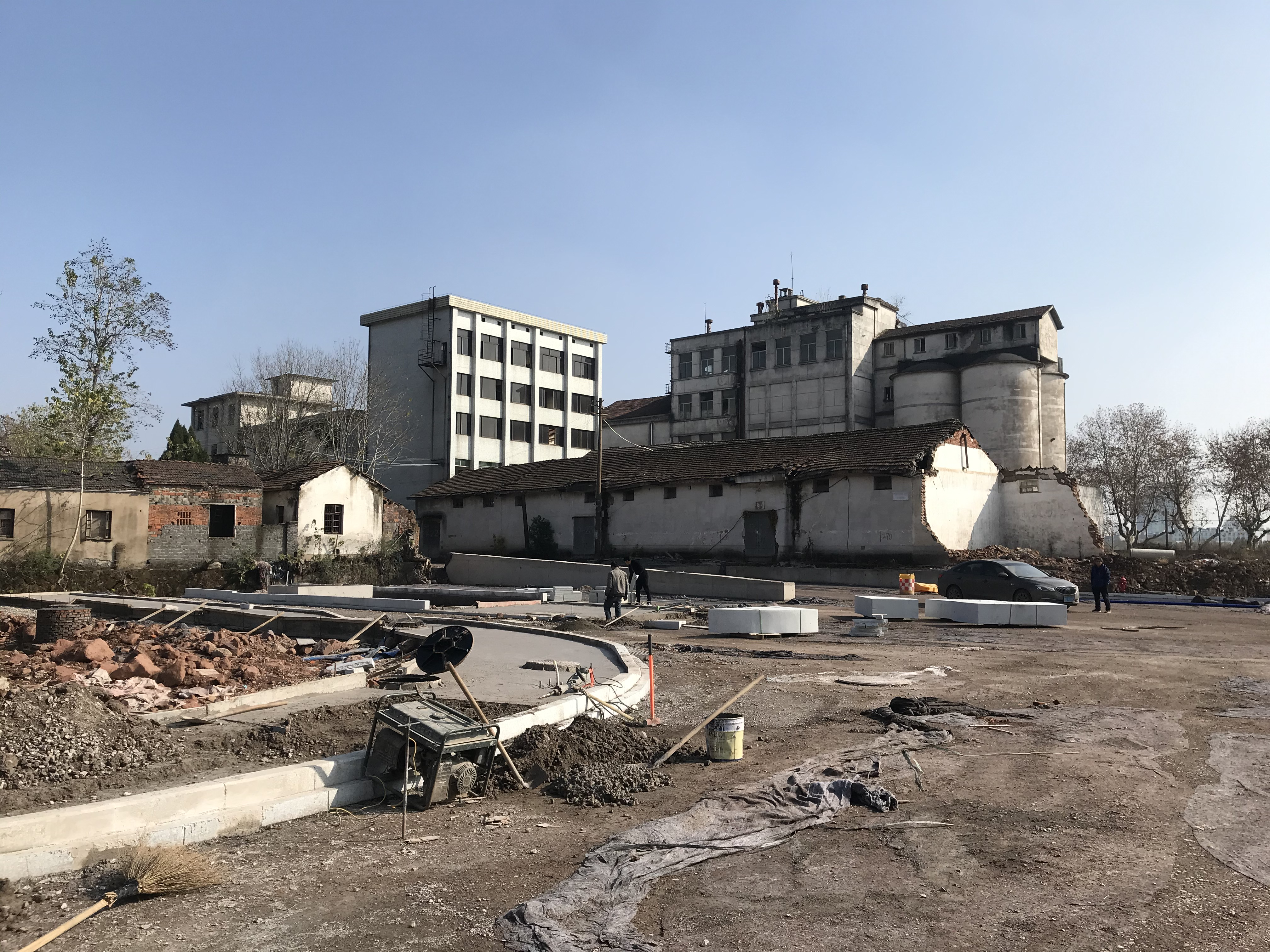 201912 Former Flour Storage Building at Old Jinhua Station